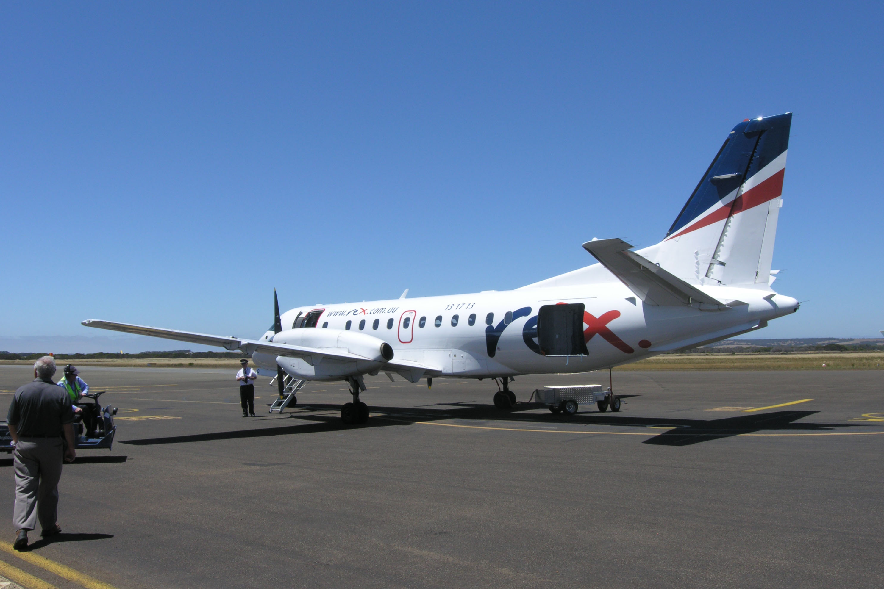 An aircraft of Regional Express (Rex) being loaded with luggage at Kingscote Airport (KGC)